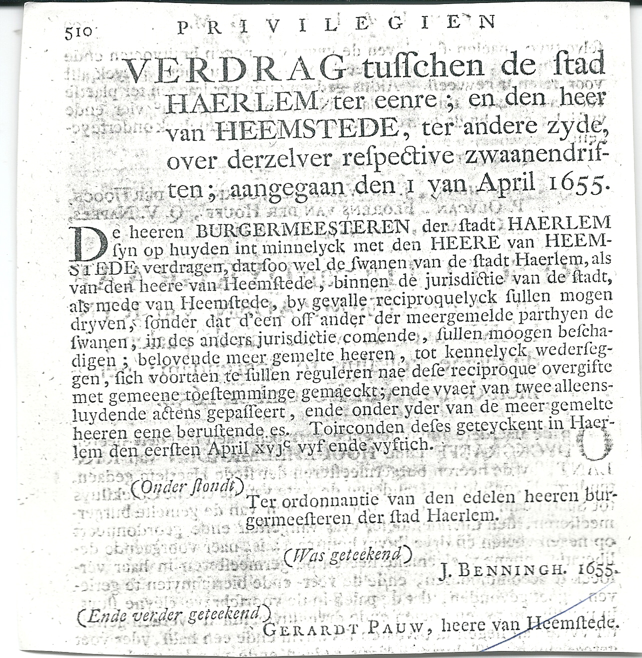 Agreement about ownership of swans